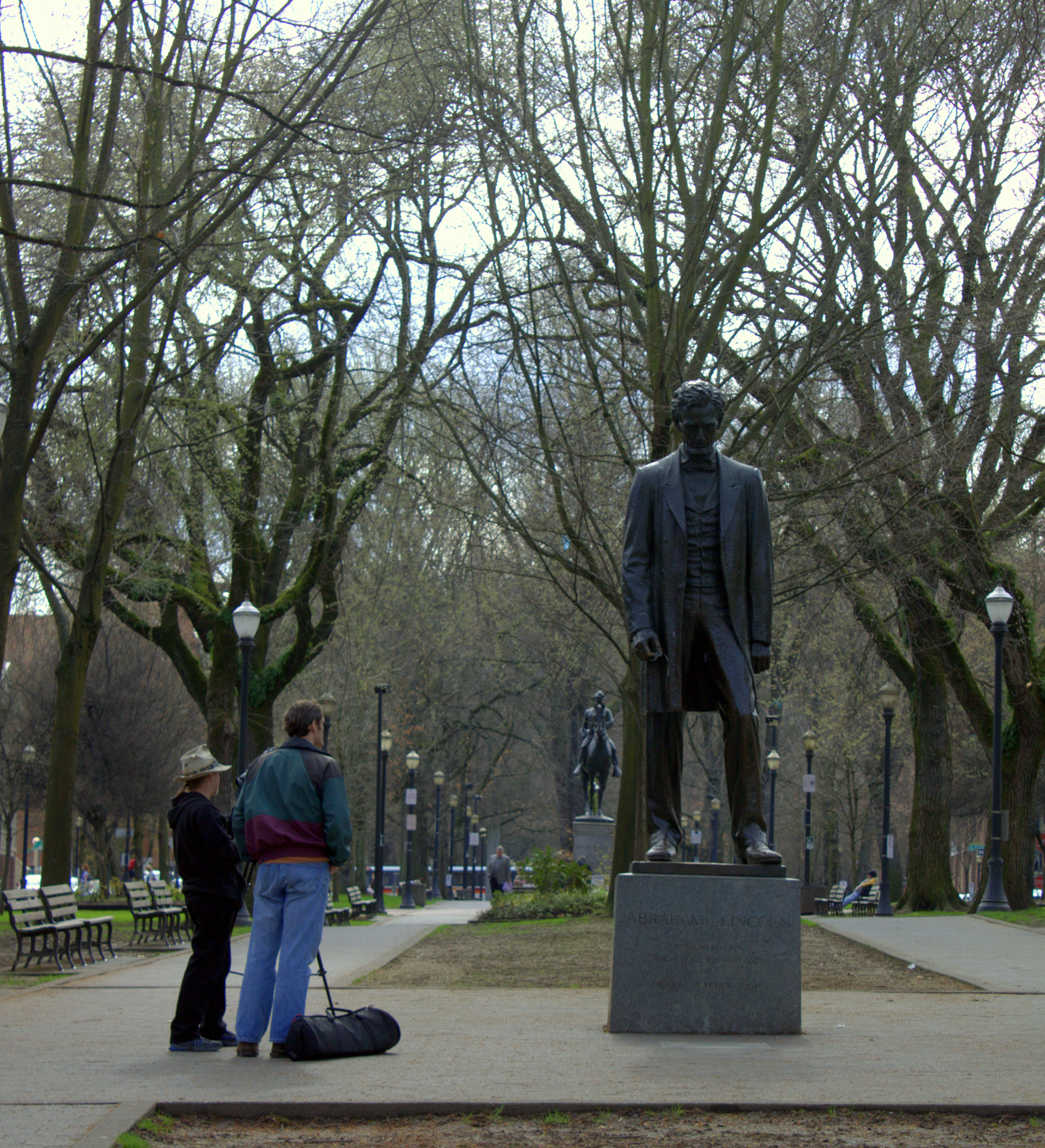 Bronze statues of Theodore Roosevelt and Abraham Lincoln in the South Park Blocks of Portland, Oregon.